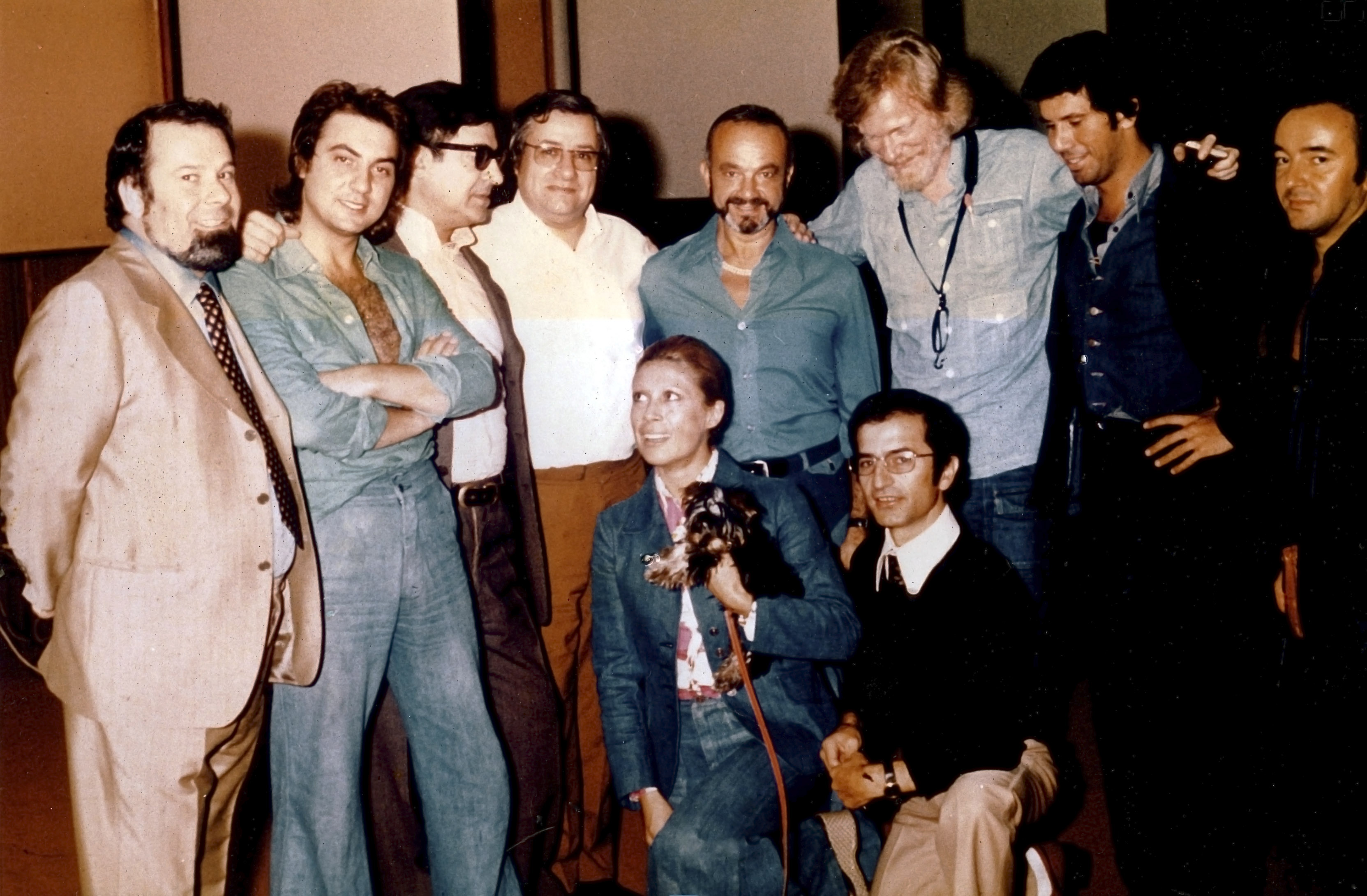 Summit-Reunion Cumbre - personnel - from left: Aldo Pagani (producer), Tullio De Piscopo, Filippo Daccò, Angel Pocho Gatti, Astor Piazzolla, Gerry Mulligan, Pino Presti, Alberto Baldan Bembo; down: Amelita Baltar, Tony Paolillo (sound engineer)